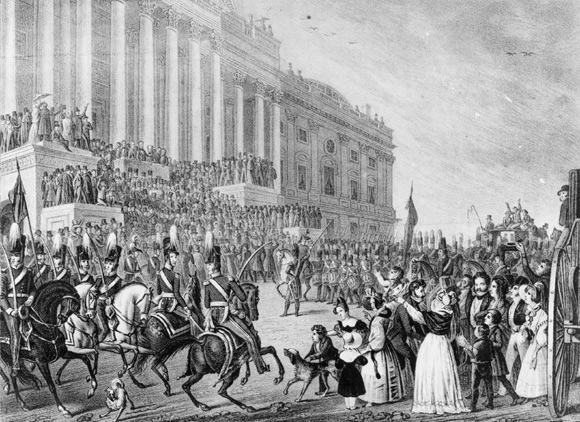 Lithograph of the Presidential inauguration of Wm. H. Harrison in Washington City, D.C., on the 4th of March 1841.